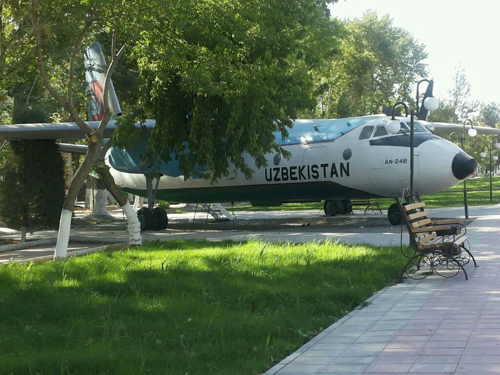 Airplane AN-24B in park "Sogdiana" - Samarkand (Uzbekistan)